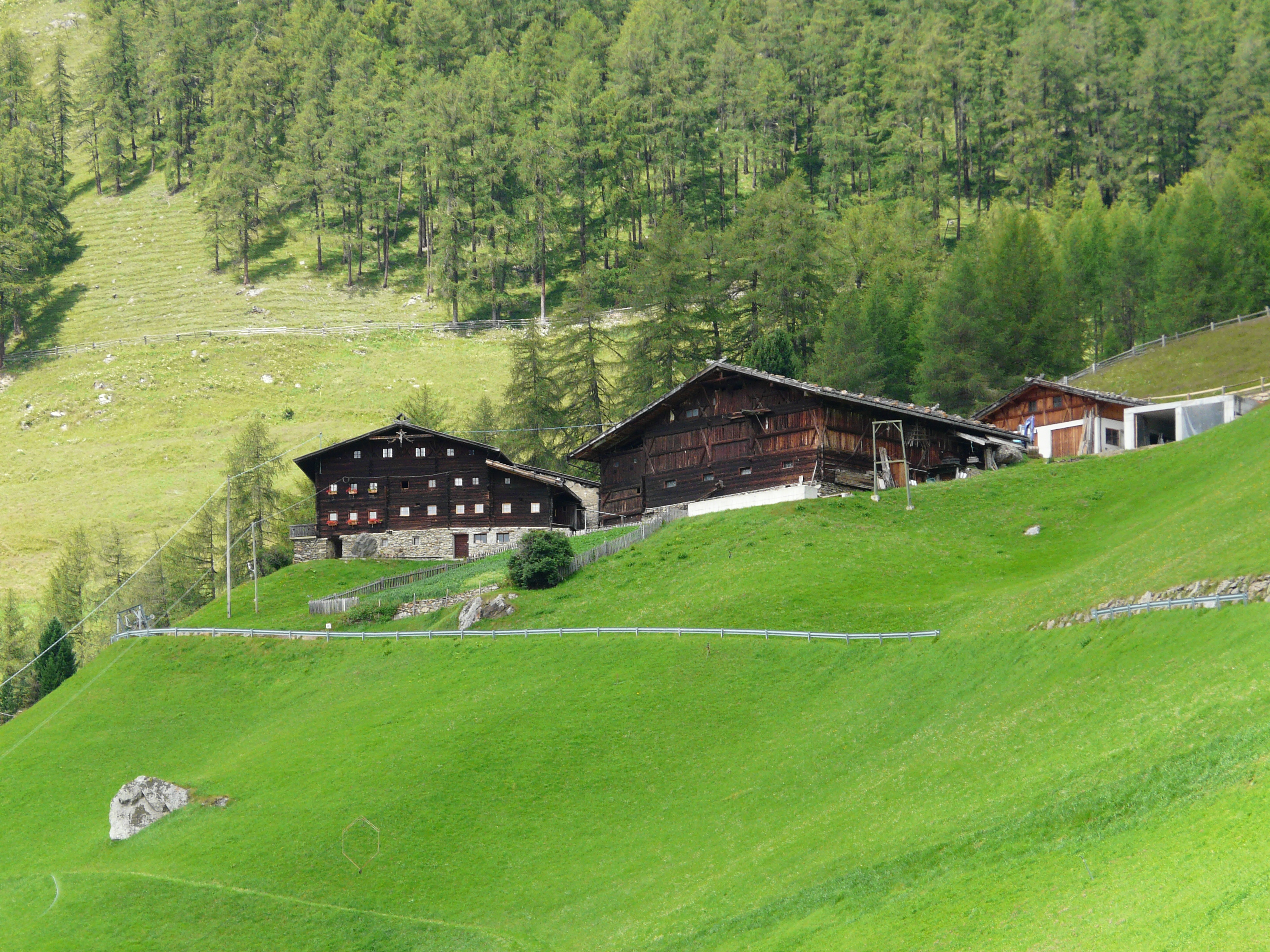 Tisenhof, Vernagt, Schnalstal